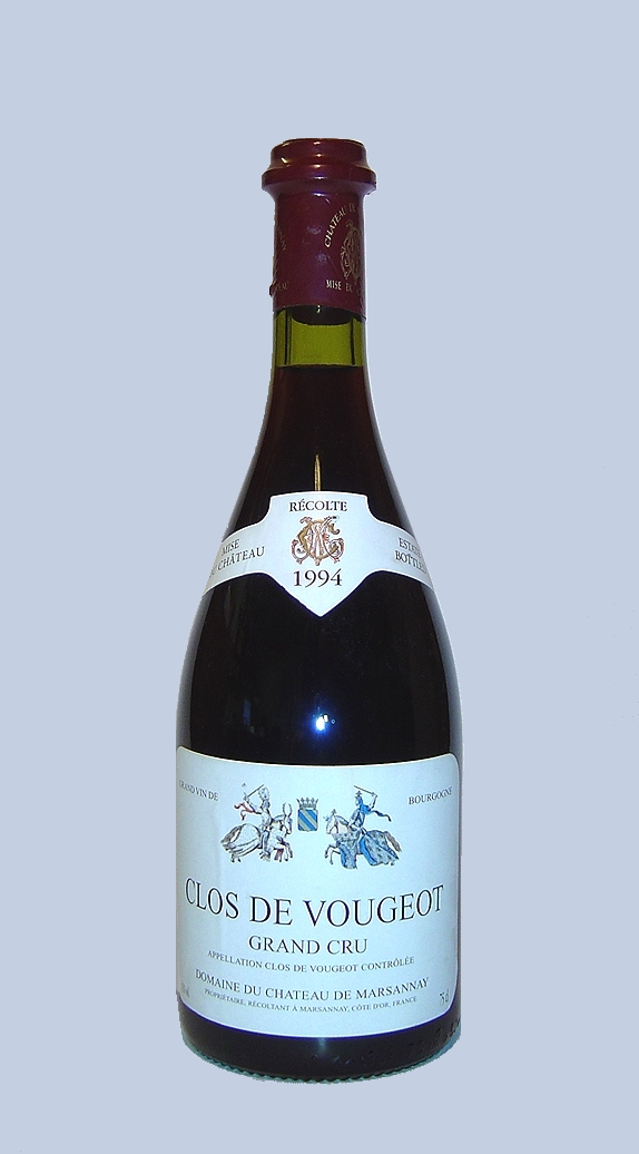 A bottle of the famous wine Clos de vougeot from 1994.